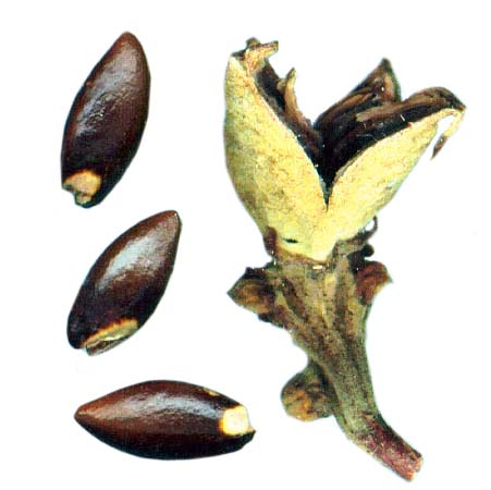 Capsule and seeds of Parrotia